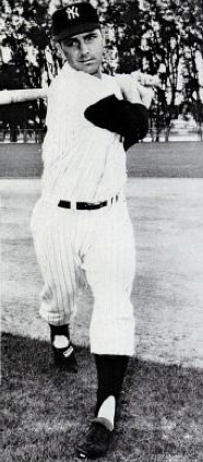 New York Yankees third baseman Clete Boyer in a 1962 issue of Baseball Digest.